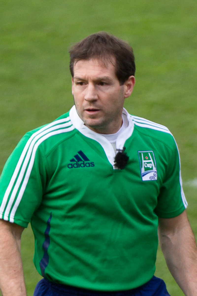 The international rugby union referee Alain Rolland from Ireland